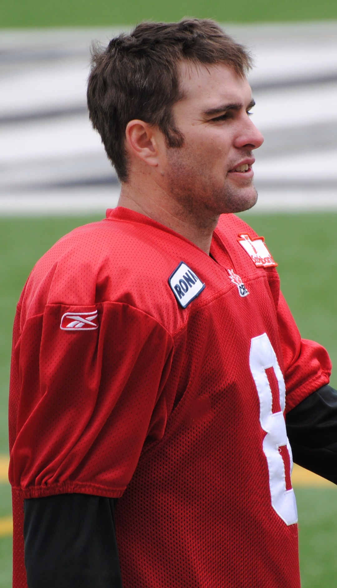 Ryan Dinwiddie during a Saskatchewan Roughriders practice.